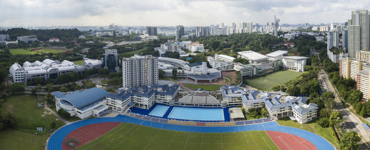 Anglo Chinese School Independent - an aerial perspective. Shot in 2016.